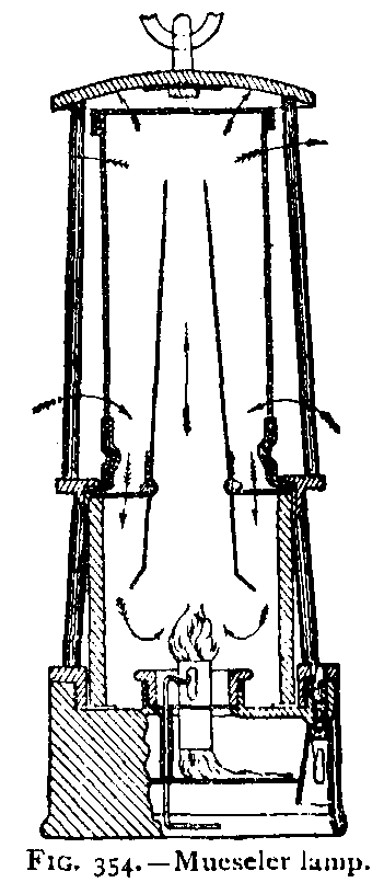 from a book about mining printed in 1893 by Arnold Lupton (1843-1930)Mining, an elementary treatise on the getting of minerals